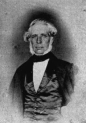 Photo of John Perry Robinson (1810/11? – 1865), second Superintendent of Nelson Province, by an unknown photographer.